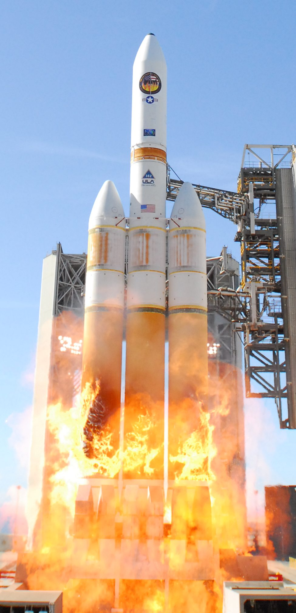 Launch of a Delta IV rocket carrying USA-224